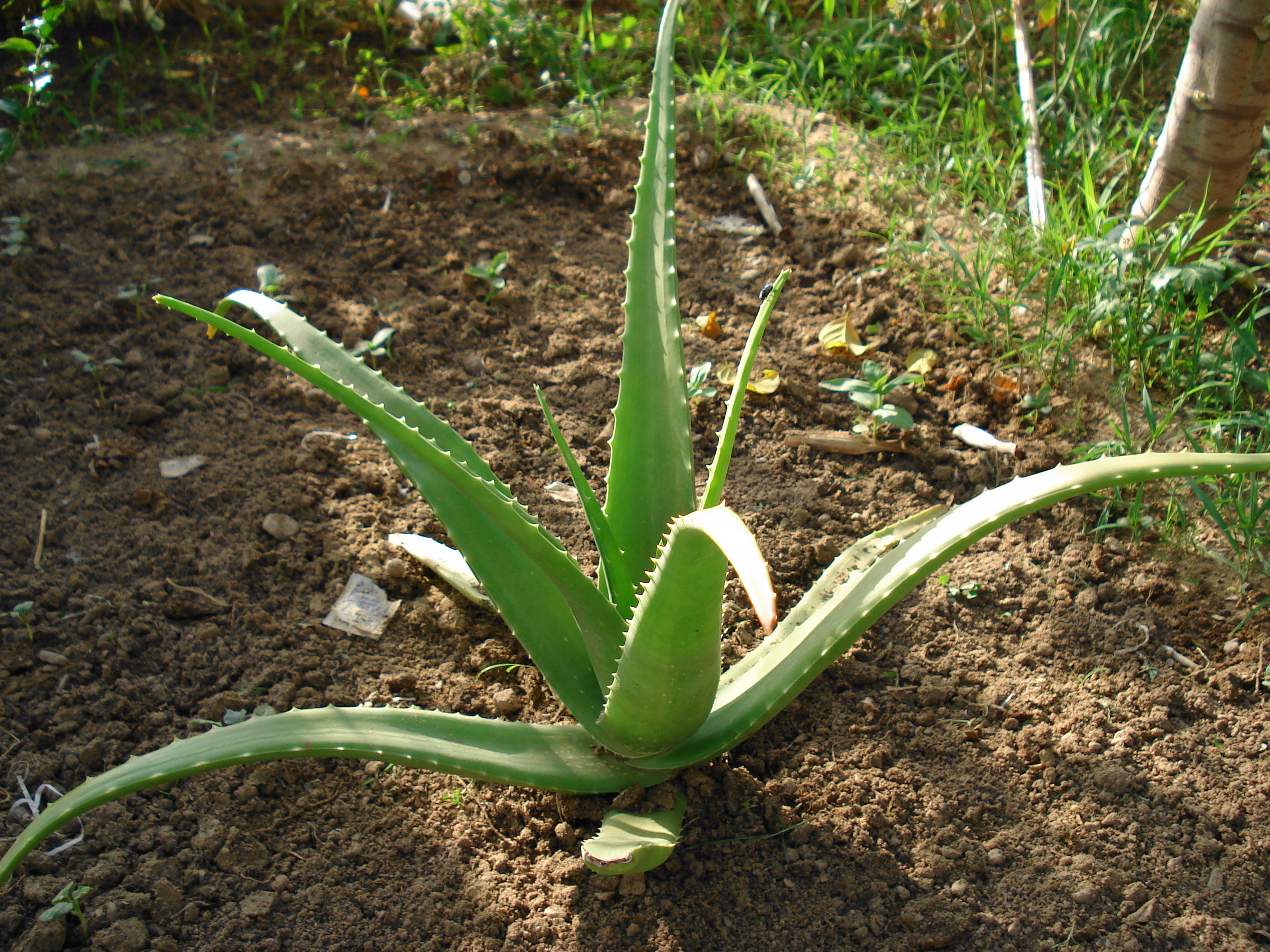 ghegawar